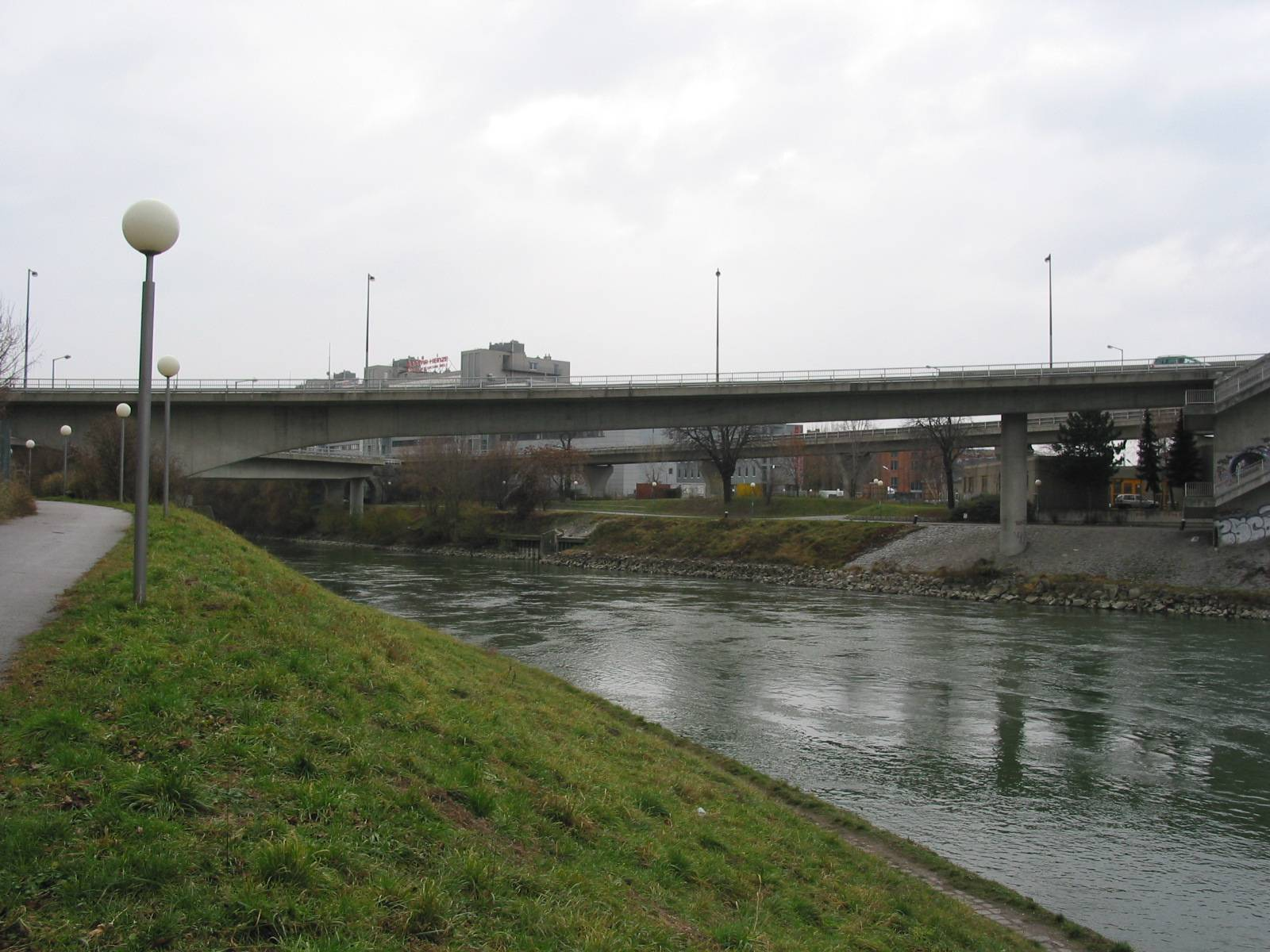 Knoten Nußdorf, 2006-12-25 own work